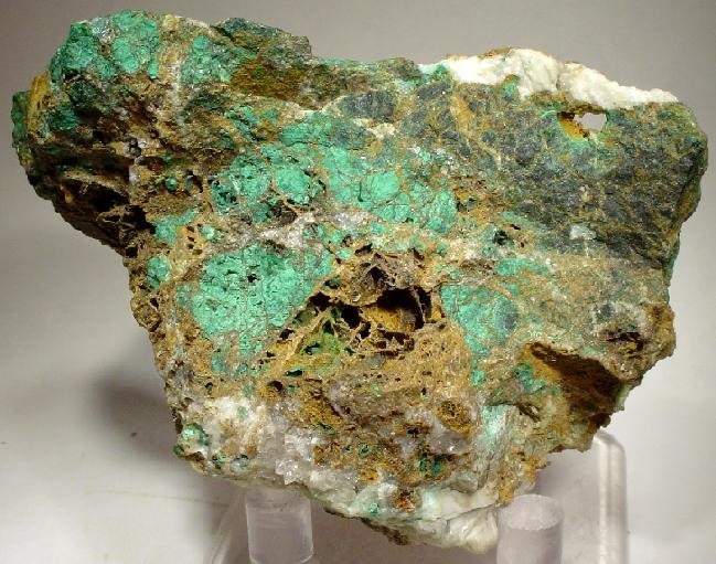 Cornwallite, Baryte Locality: Old Potts Gill Mine, Potts Gill, Caldbeck Fells, North and Western Region (Cumberland), Cumbria, England, UK (Locality at ) A VERY RICH, OLD-TIME specimen of botryoidal, green cornwallite in a boxwork, gossan matrix with massive white barite from a famous English locality, the Old Potts Gill Mine of Caldbeck Fells, Cumbria. Ex Edna Doughty and Richard Hauck Collections. 7.6 x 5.1 x 4.7 cm